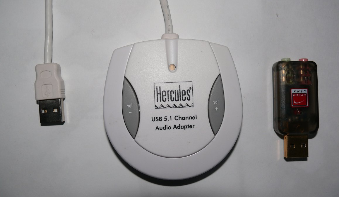 2 kinds of USB-AUdio-Interfaces